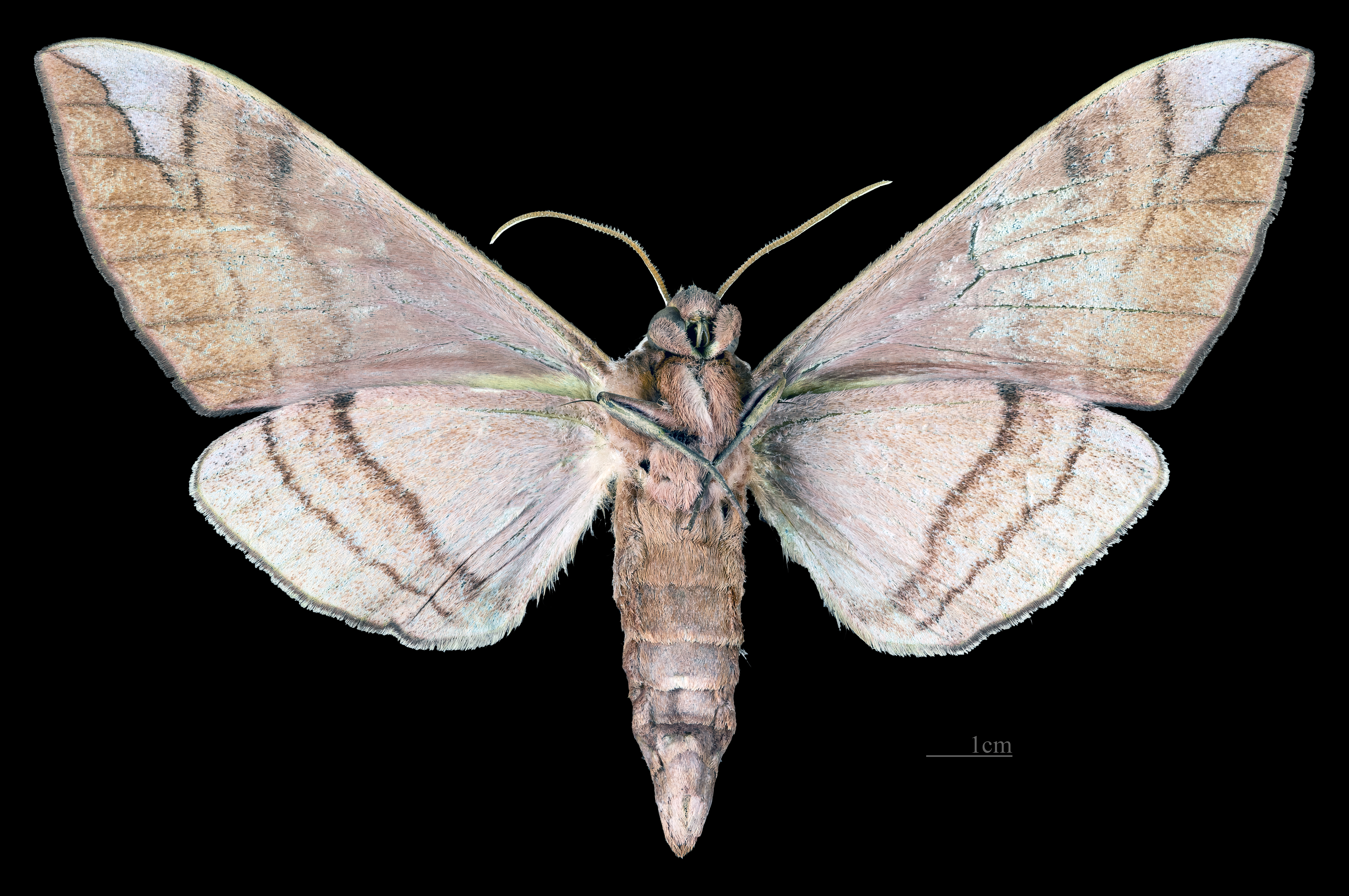 Clanidopsis exusta - △ Ventral side Collection of the Mathematician Laurent Schwartz